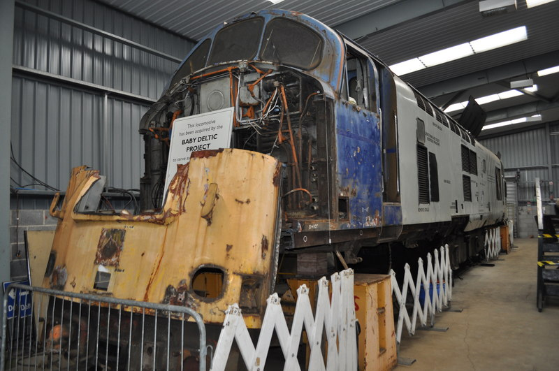 Baby Deltic Project, near to Brimington, Derbyshire, Great Britain. The baby deltics were all scrapped but some engines survived. Now a group is converting a class 37 into a baby deltic with an original engine. Link